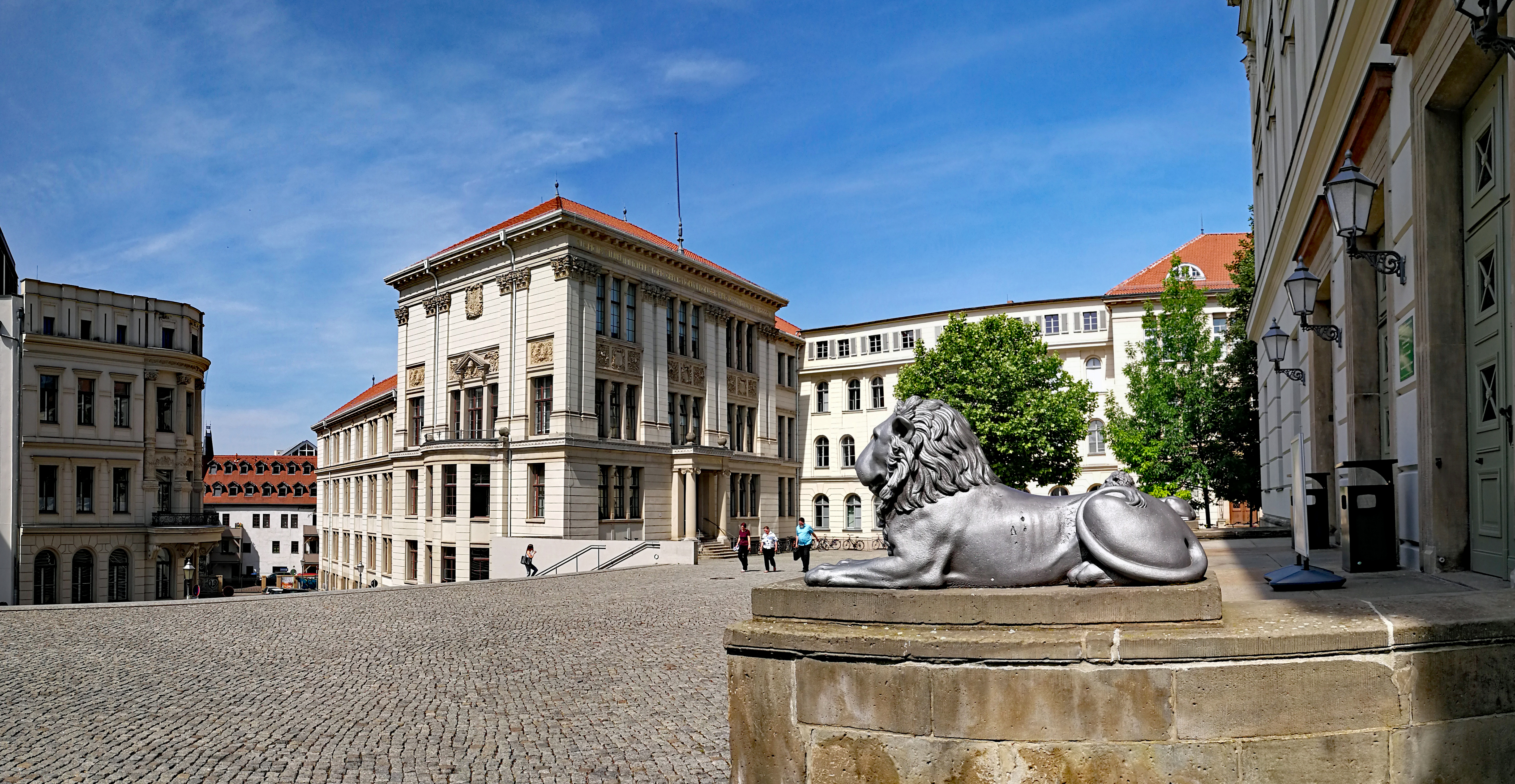 Universitätsplatz (Halle (Saale), Saxony-Anhalt, Germany)